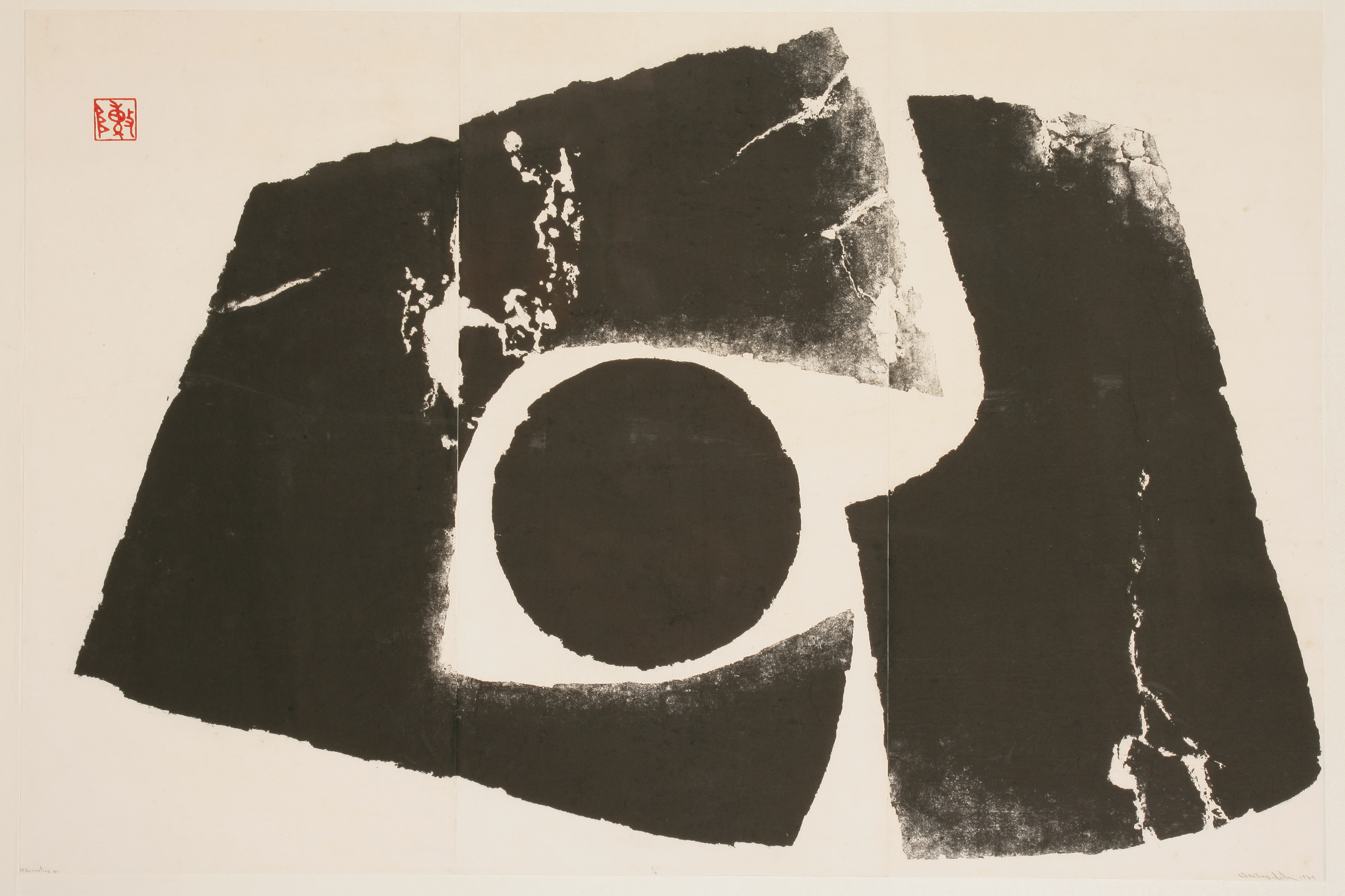 Hibernating#1 1963 120*180cm Collection of the Chen Ting-Shih Modern Art Foundation